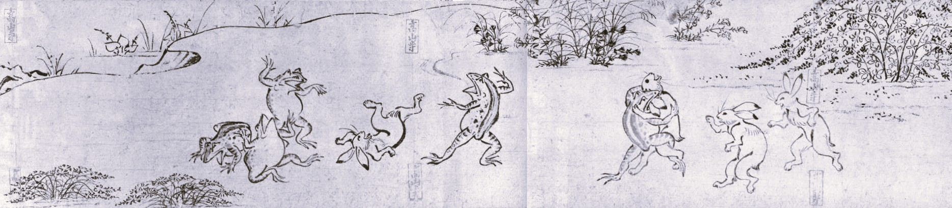 Frogs and rabits playing Sumo scene from Chouju_Jinbutsu_Giga 1st scroll